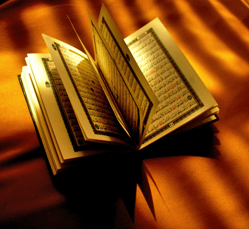 A copy of the Qur'an opened for reading.